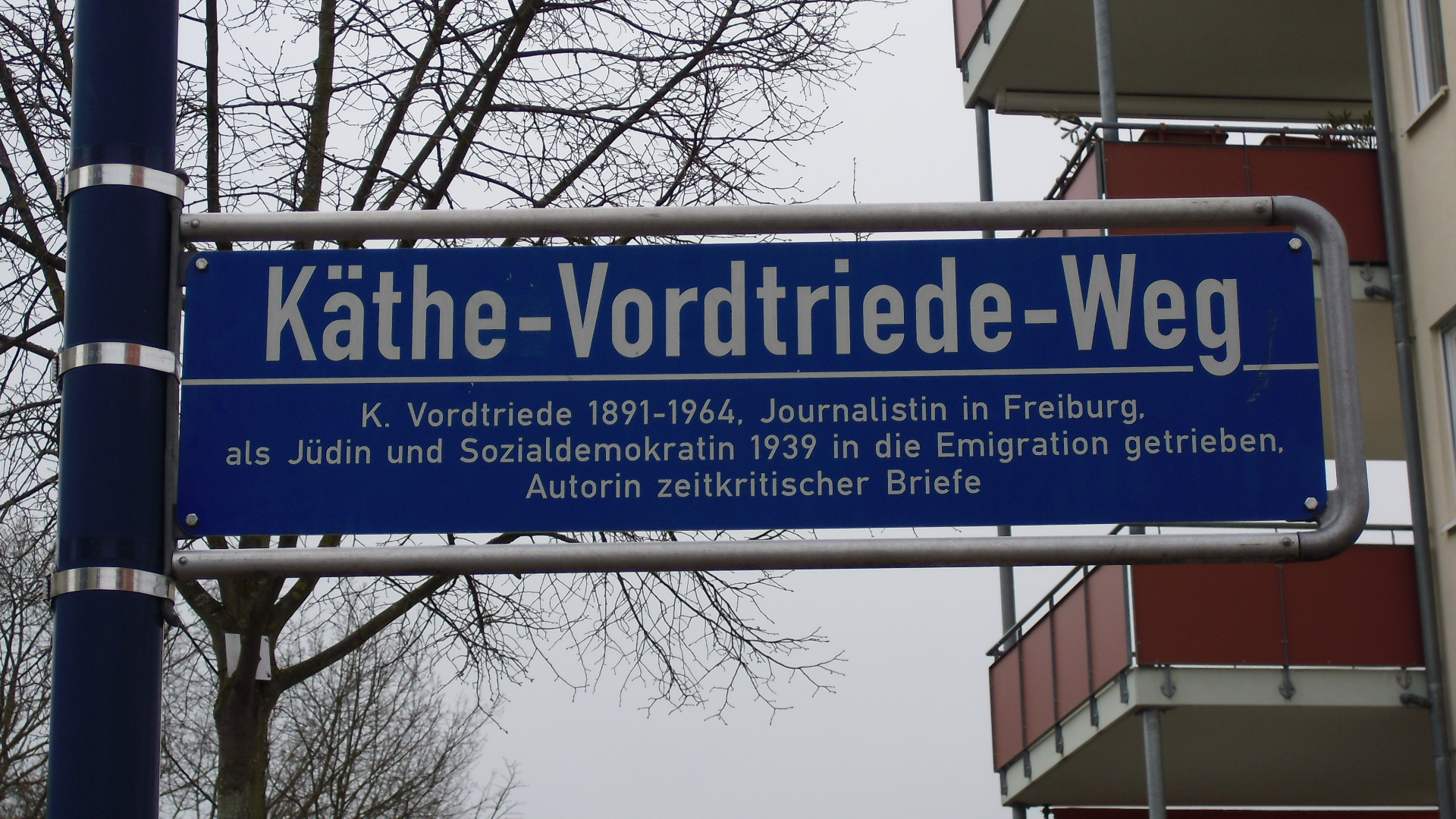 The „Kaethe Vordtriede Way“ of Freiburg. Street opening in 2003.